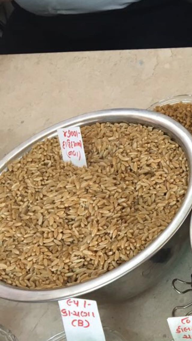 Sample of Bhalia (Daudkhani) Wheet